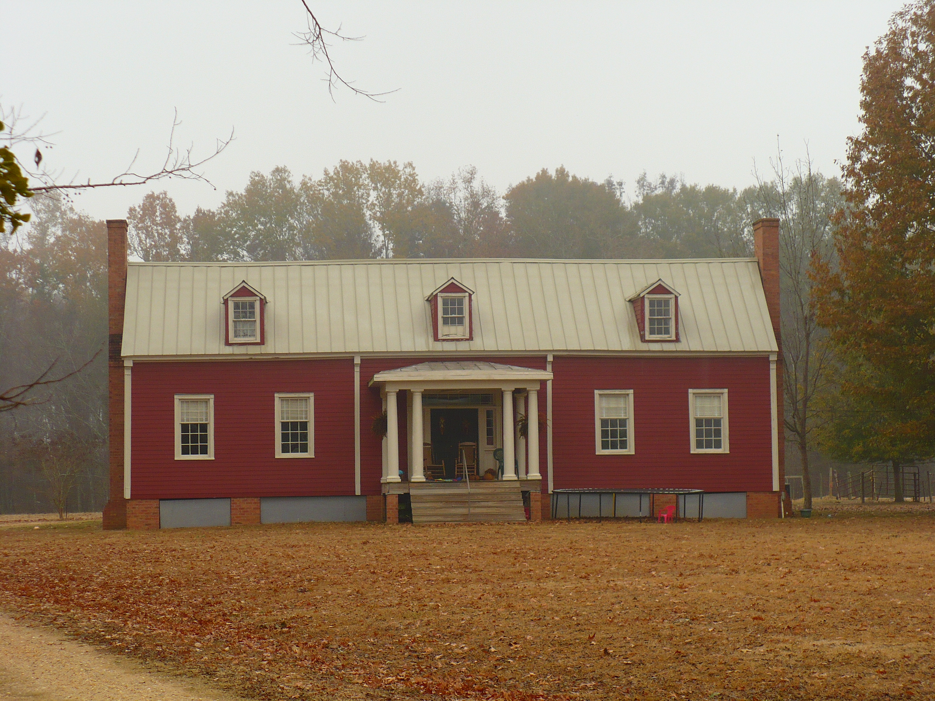 Altwood Plantation near Faunsdale, Marengo County, Alabama. It is a log house with external clapboarding.